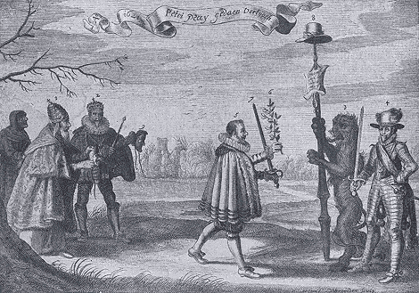 Cartoon depicting the Pope, king of Spain, Petrus Peckius (chancellor of Brabant), Dutch Lion and Maurice of Nassau in connection with the negotiations about the extension of the Twelve Years' Truce in 1621. From Adriaen Valerius, Nederlantsche Gedenckclanck, vol 2, p224